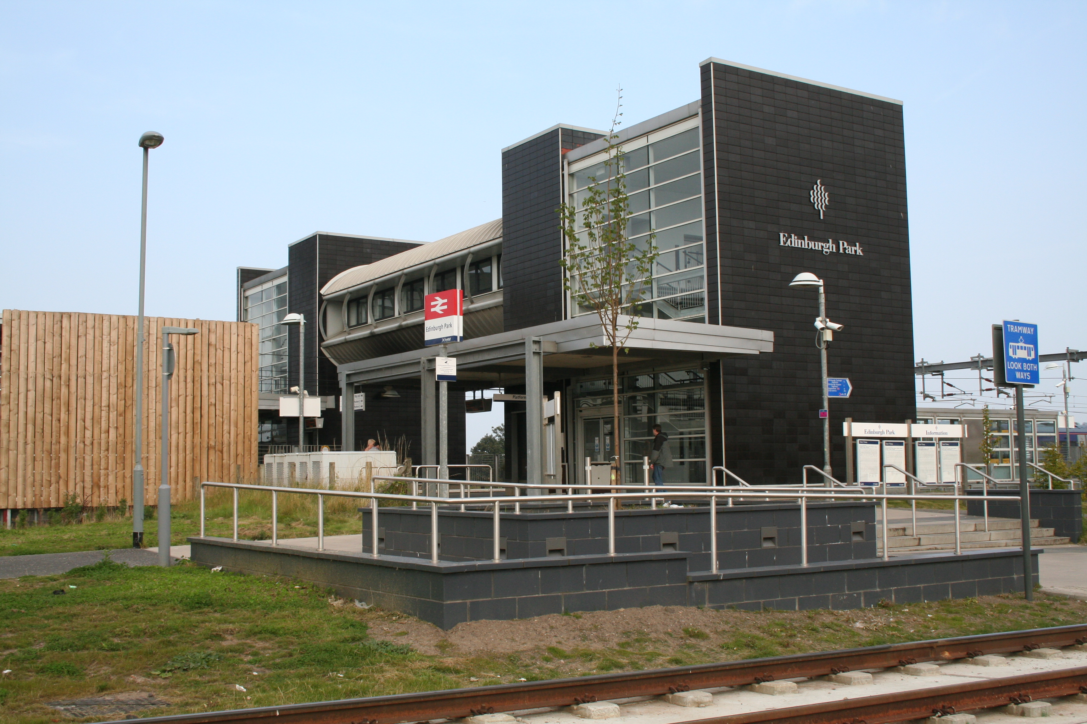 The overbridge of Edinburgh Park railway station, seen from the south. In the foreground are the tram tracks feeding the adjacent tram stop, out of shot to the right.